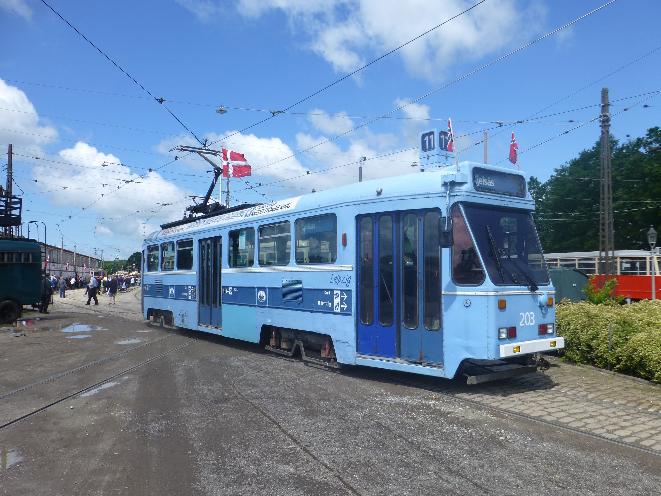 Tram parade at Sporvejsmuseet Skjoldenæsholm due to celebrating of 50 years of the Danish tramway society, Sporvejshistorisk Selskab. Tram from Oslo, OS 203 from 1953.